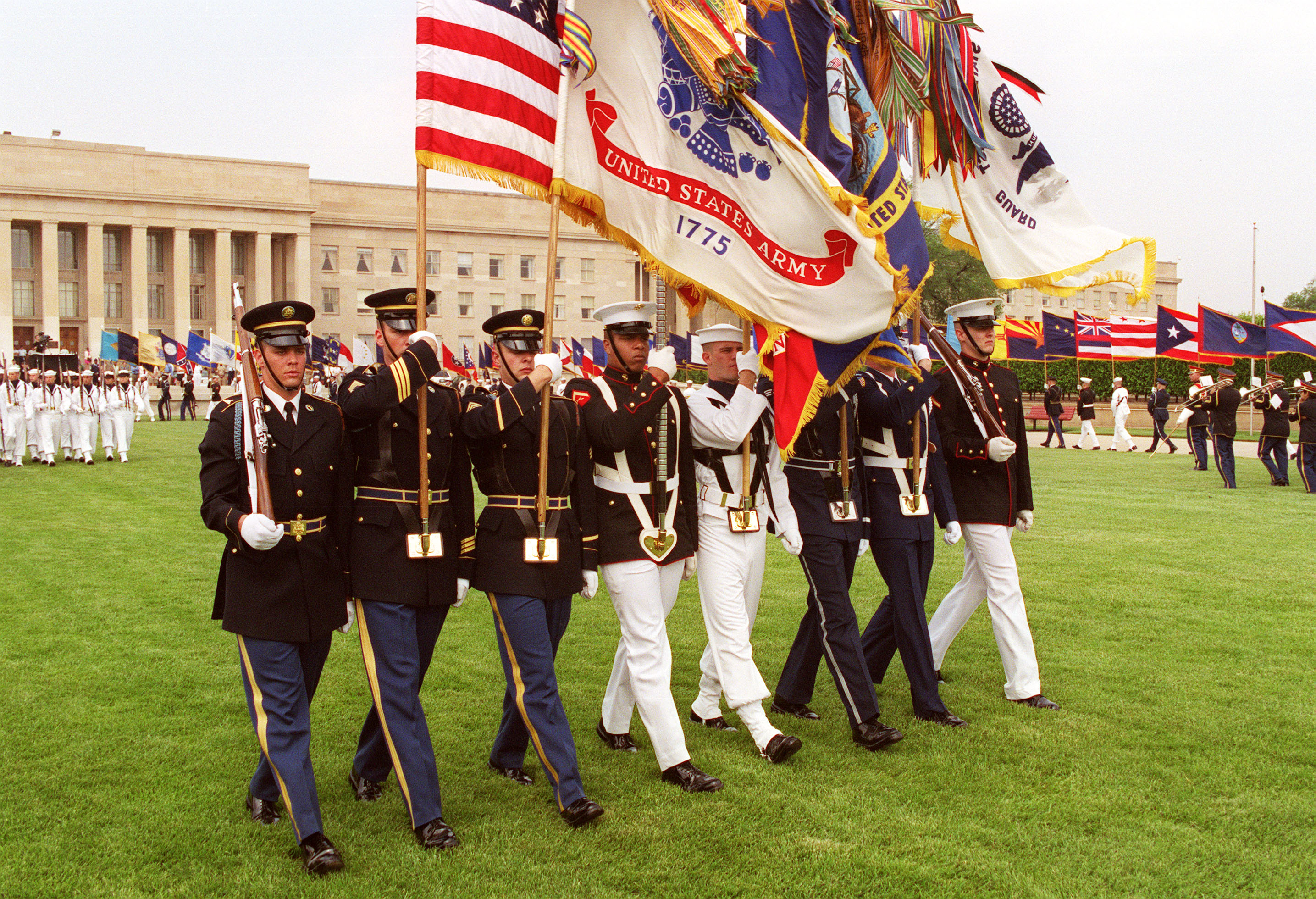 The Joint Service Color Guard passes in review before a large audience of Department of Defense officials and guests during the 50th Anniversary of Armed Forces Day ceremony at the Pentagon on May 18, 2000. Secretary of Defense William S. Cohen and Chairman of the Joint Chiefs of Staff Gen. Henry H. Shelton, U.S. Army, co-hosted the event which honored approximately 300 "unsung heroes" who are military and civilian employees of the Department of Defense in the National Capital region.